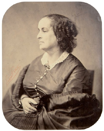 Photograph of Adèle Hugo, born Foucher, Victor Hugo's wife (1803-1868).